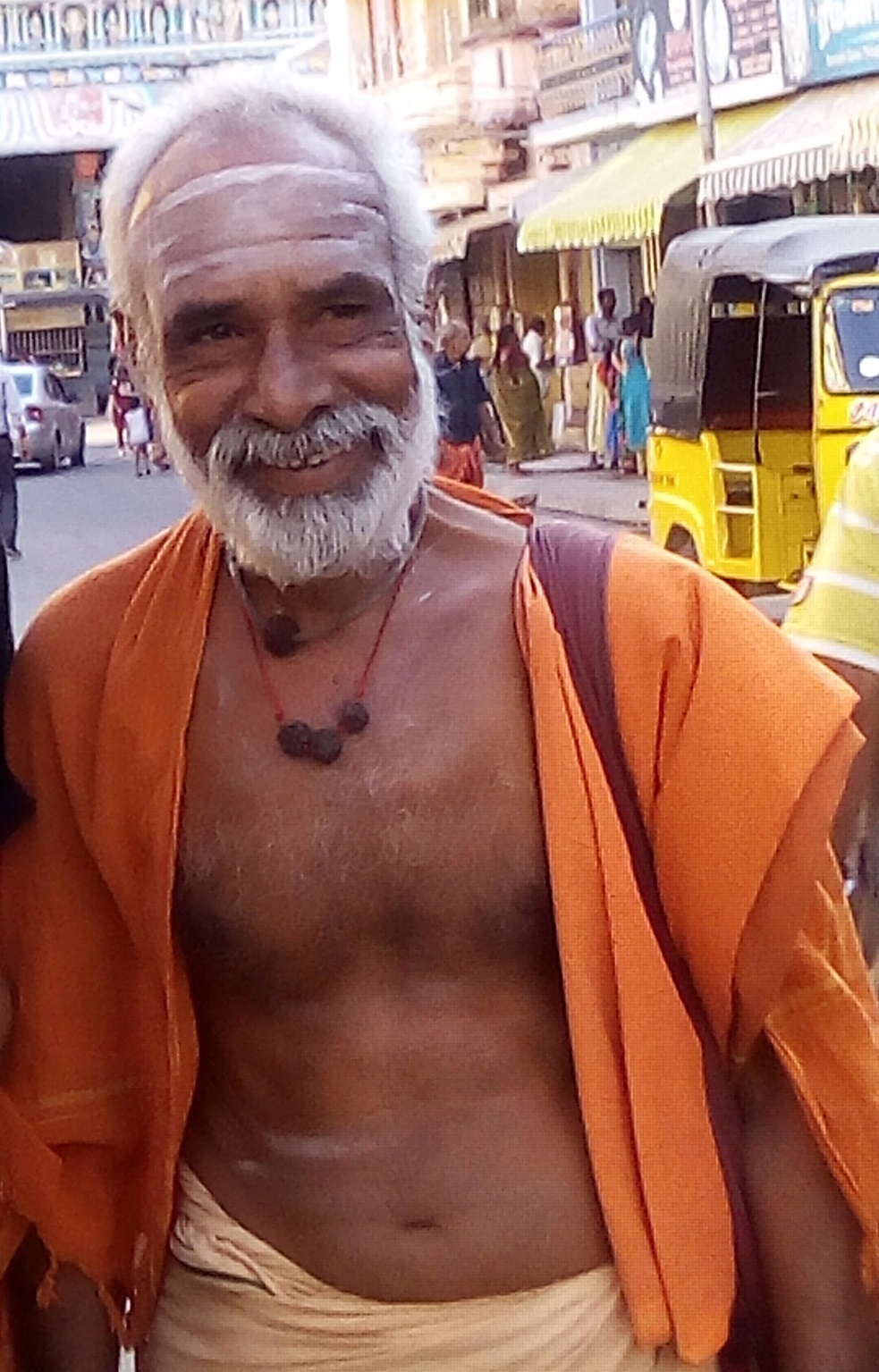 A sadhu in Tamil Nadu, India